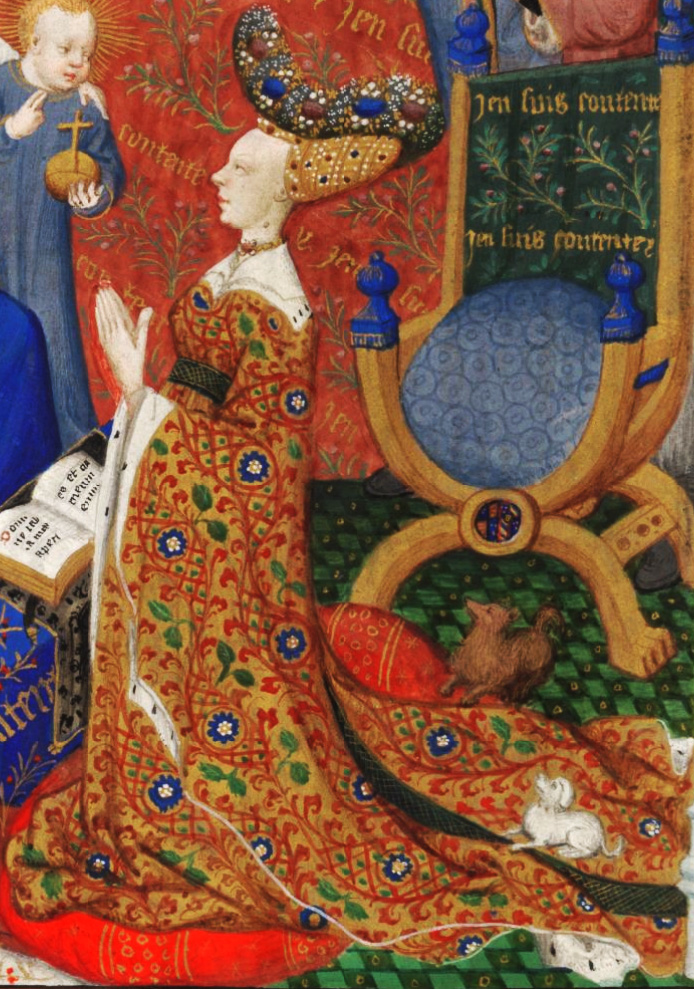 Miniature of Anne, Duchess of Bedford, praying before St Anne; from BL Add MS 18850, f. 257v (the "Bedford Hours"). Held and digitised by the British Library.